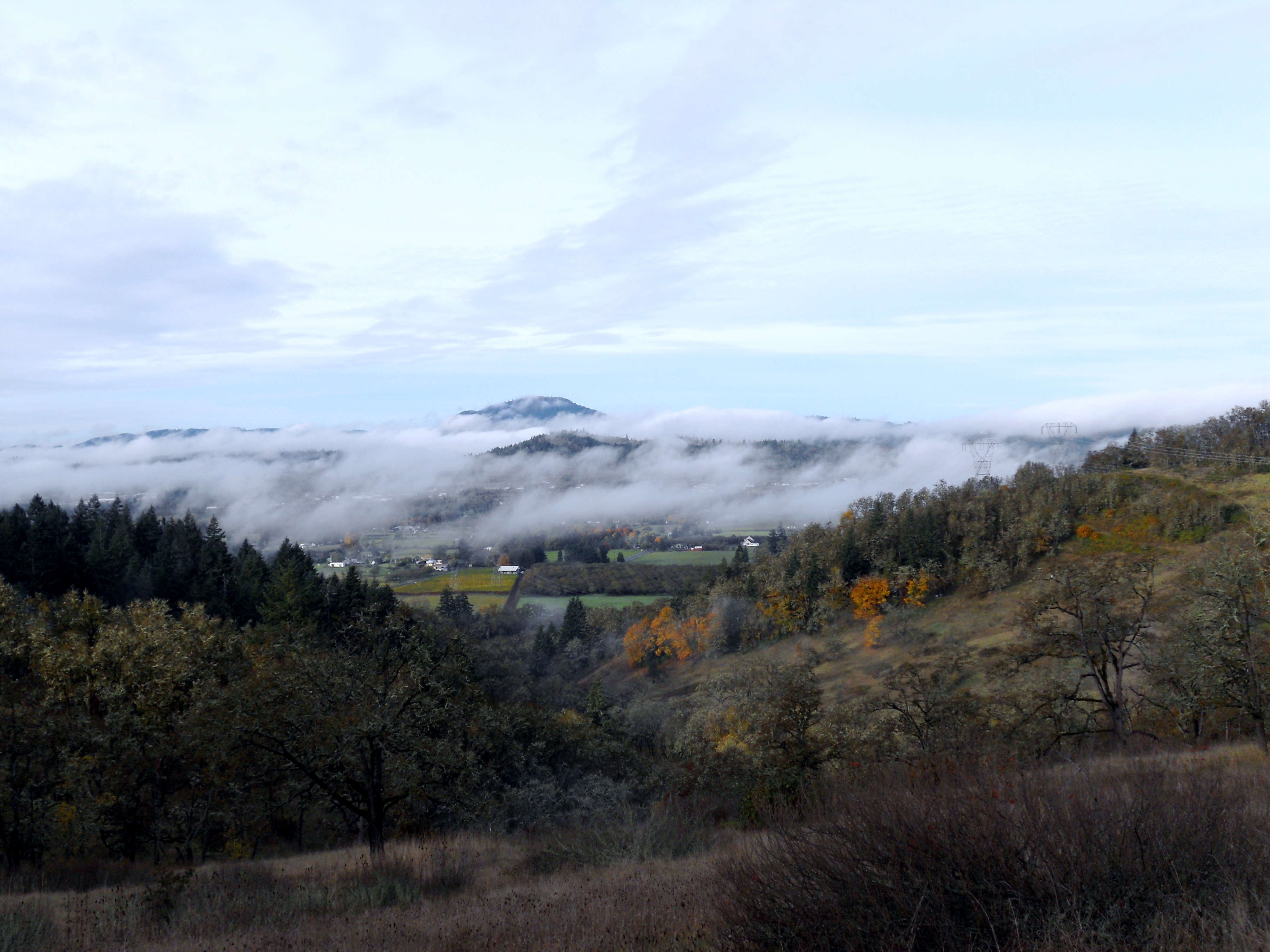 Fog and low clouds hovering over Eugene and other parts of the southern Willamette Valley, as seen from Mount Pisgah in Lane County, Oregon. Spencer Butte is the highest hill in the distance.